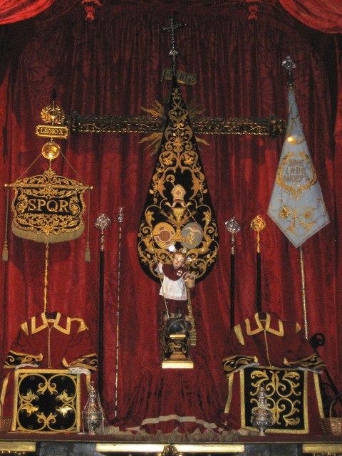 Detalle de las insignias de la Hermandad de la Sentencia